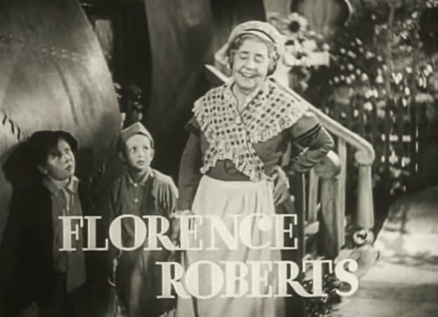 Florence Roberts in Babes in Toyland - trailer (cropped screenshot)